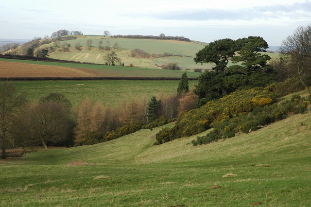 Hidcote Combe View down into Hidcote Combe through which the Monarch's Way a 610 miles long LDP passes. The hill in the background is Meon Hill a Cotswold outlier situated on the north-western edge of the Cotswold Hills.